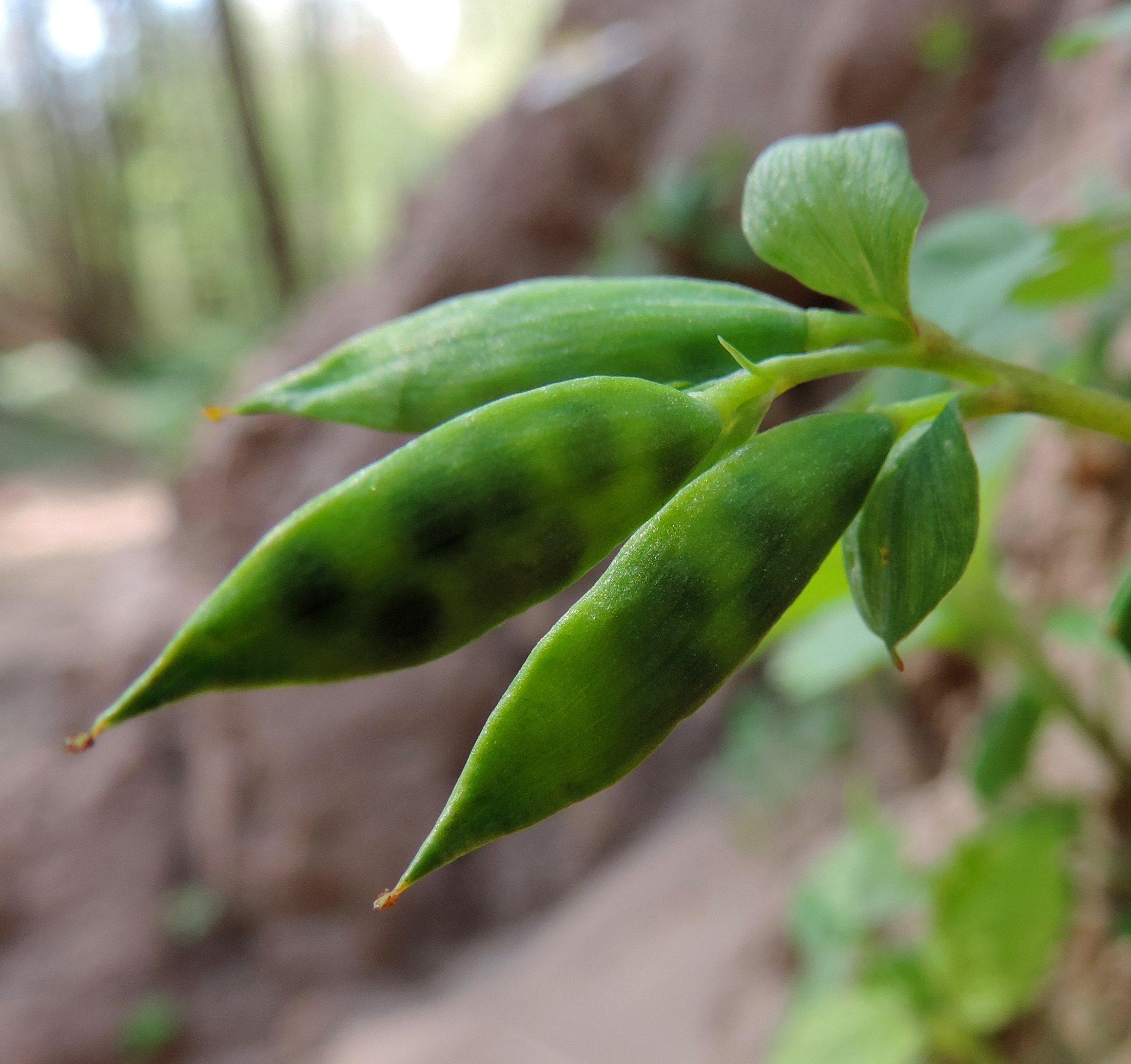 Corydalis intermedia. Forest in Kisewo near Lębork (N Poland)